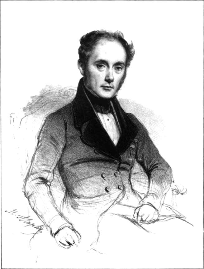 Drawing of Jean-François Bayard (1796-1853), French actor